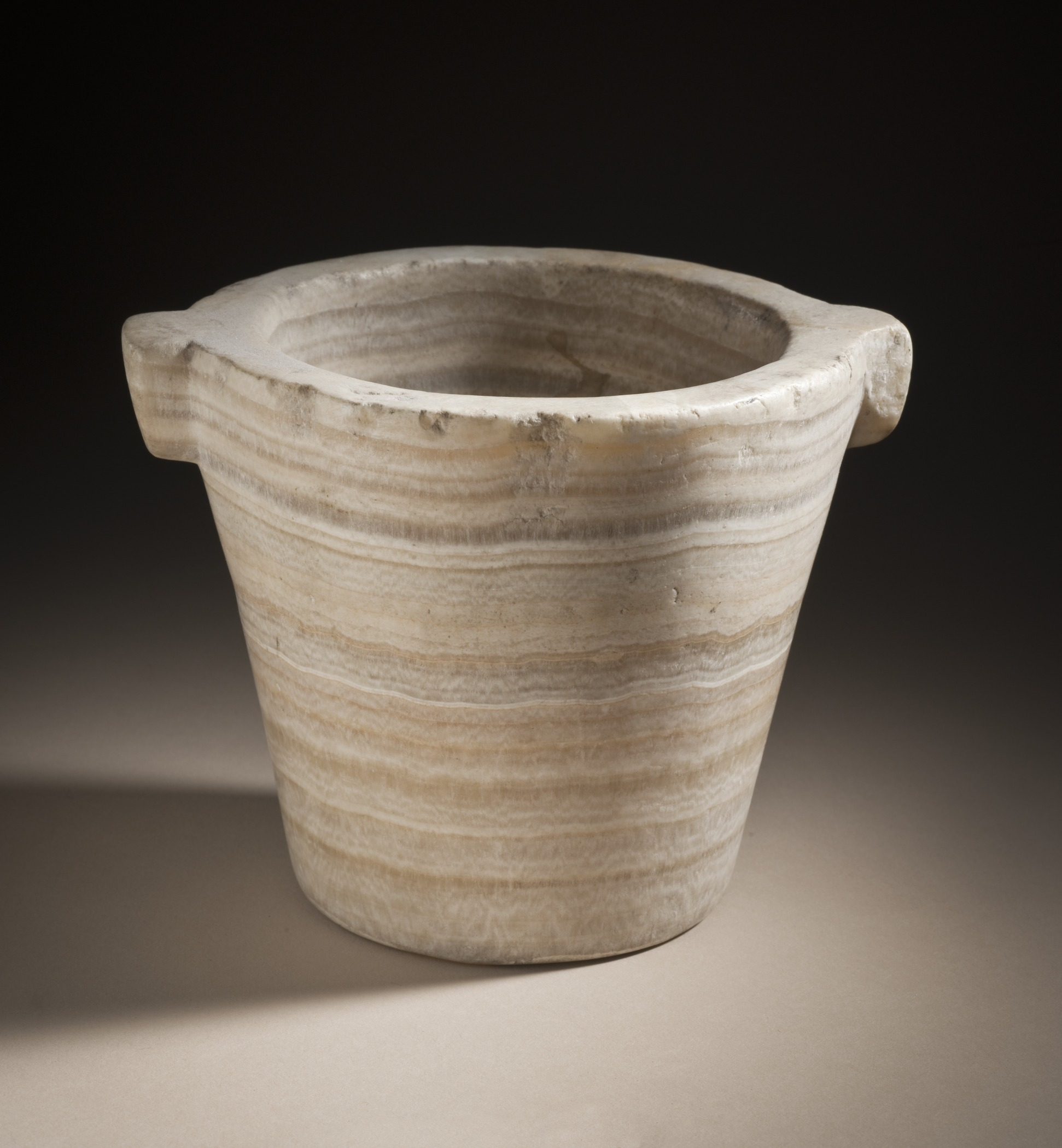 Tools and Equipment; mortars Calcite Height: 5 1/8 in. (13 cm) Gift of Robert Blaugrund (M.80.196.58) Egyptian Art